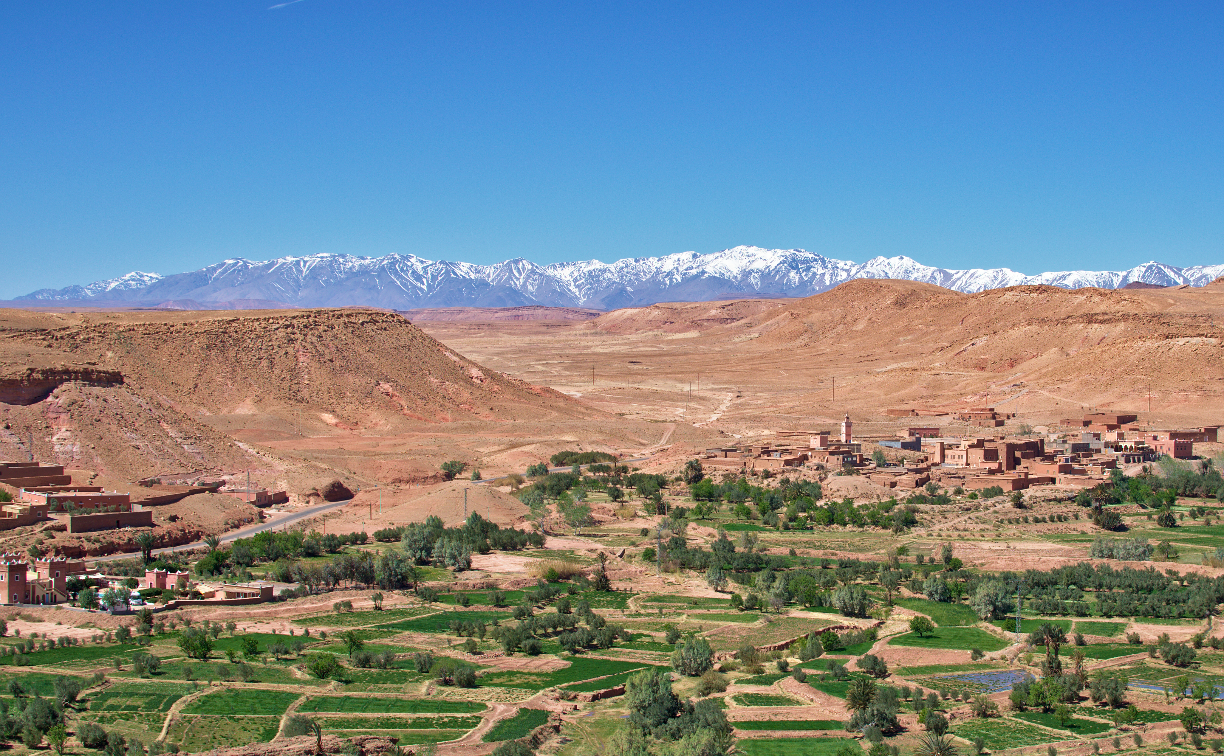 Aït Benhaddou, Morocco